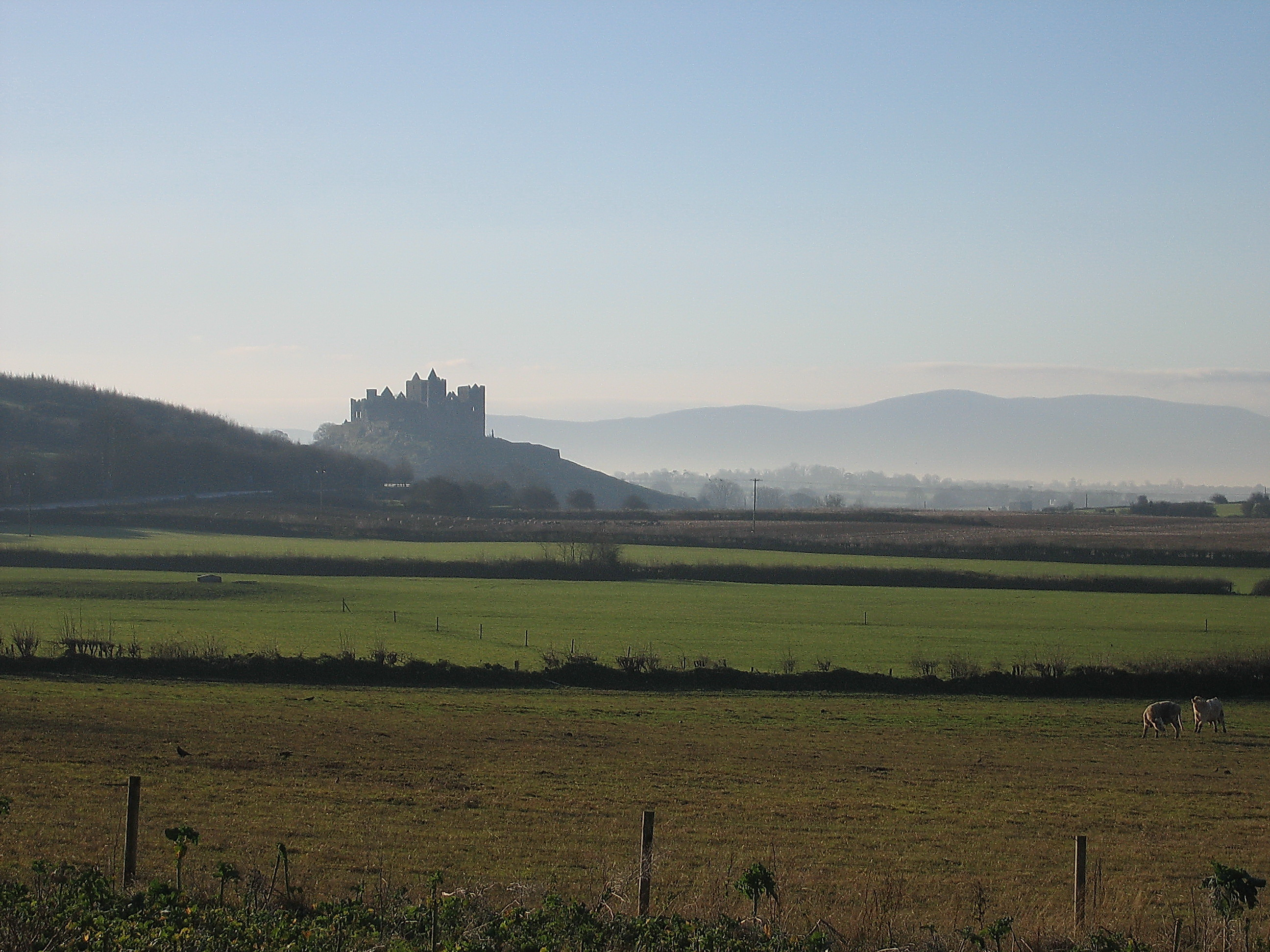 The Rock of Cashel from the north. (Sarah777 23:30, 22 December 2006 (UTC))